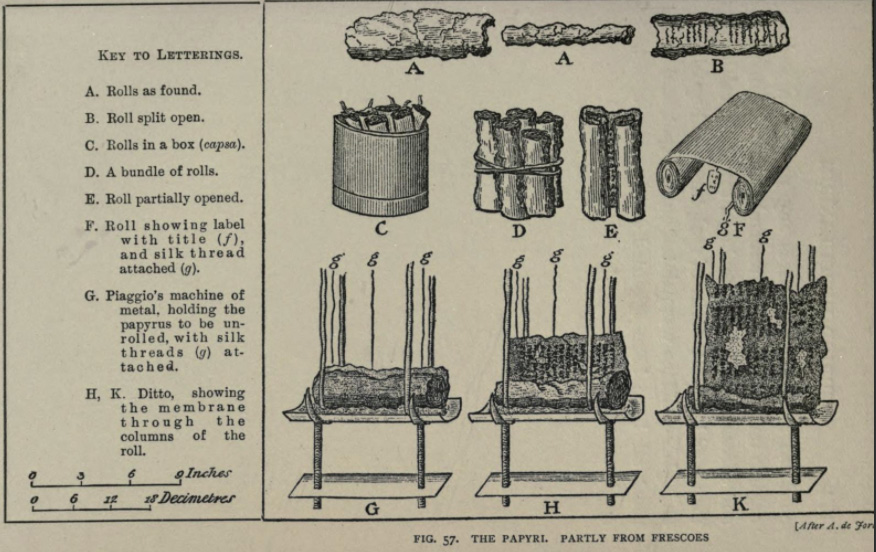 Abbot Piaggio's machine to unfold Herculaneum papyri.